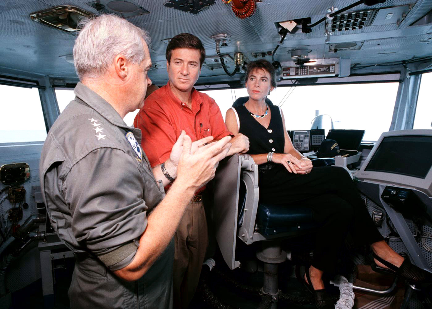 "Virginia Governor George Allen (center) and his wife Susan (right) listen as US Navy Admiral William J. Flanagan Jr., Commander-in-Chief US Atlantic Fleet, explains shipboard operations on the navigational bridge of the US Navy nuclear powered aircraft carrier USS GEORGE WASHINGTON (CVN 73). All three were visiting the George Washington to welcome her crew back to Virginia after completion of a successful six-month deployment."